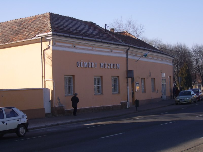 Gömöri Museum in Putnok